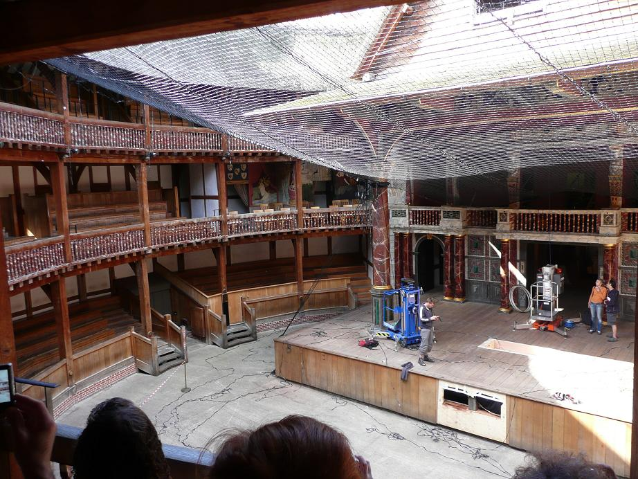 Shakespeare's Global Theater